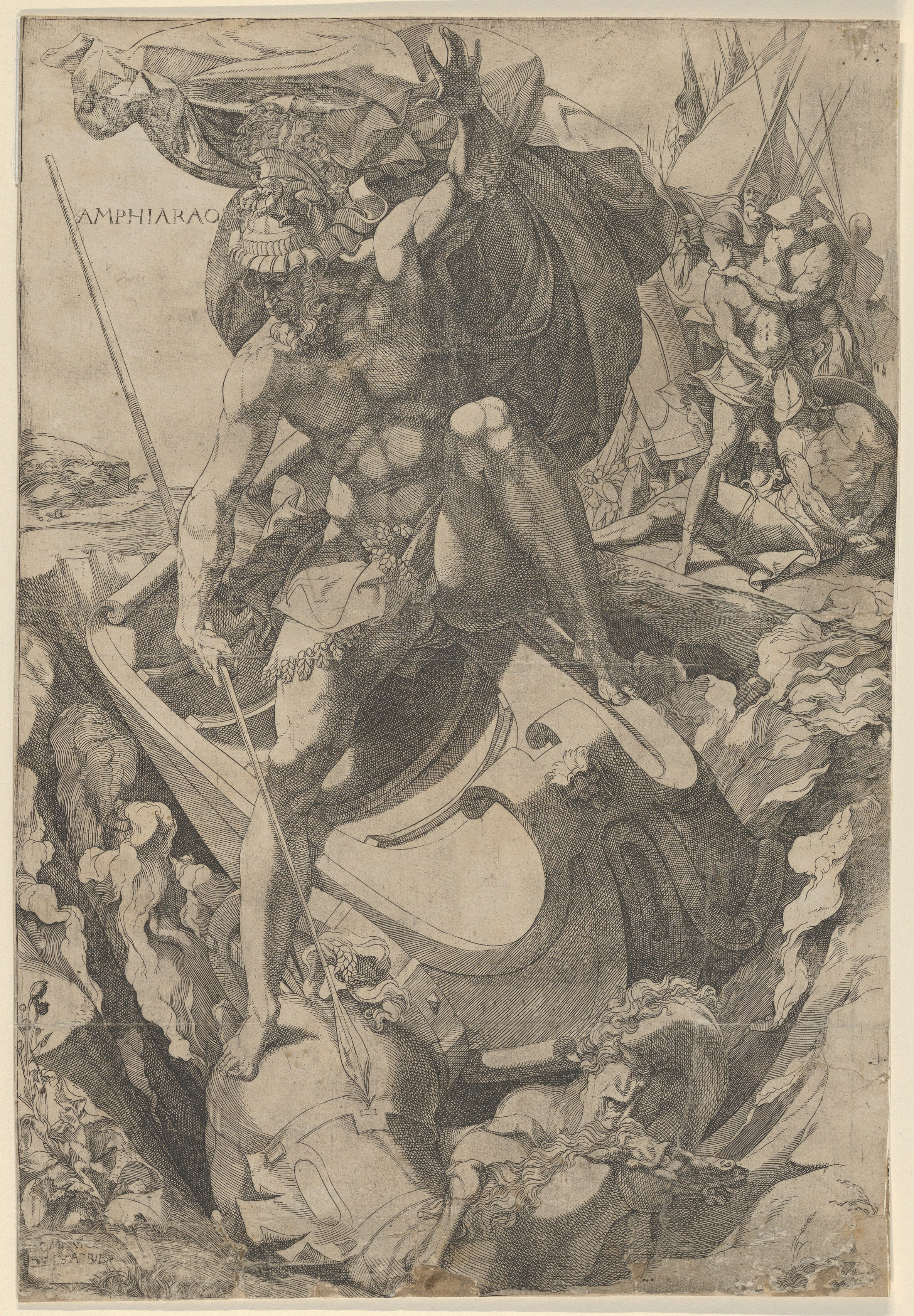 Print; Prints